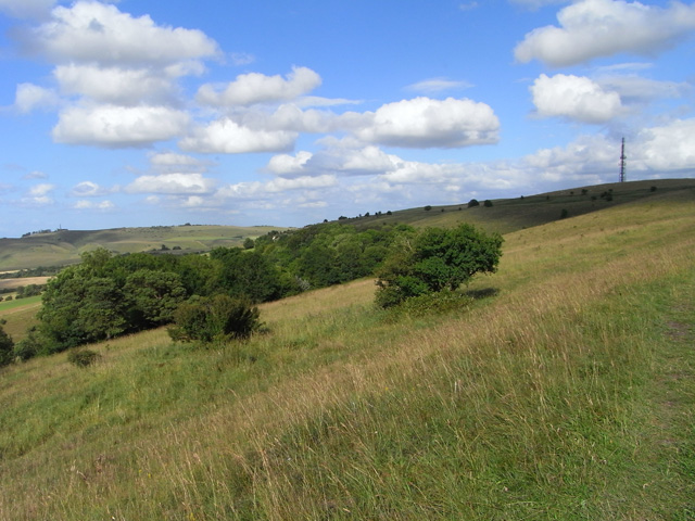 Morgan's Hill The western side of the hill. The top has a second mast in addition to that shown. Cherhill Down is in the distance.